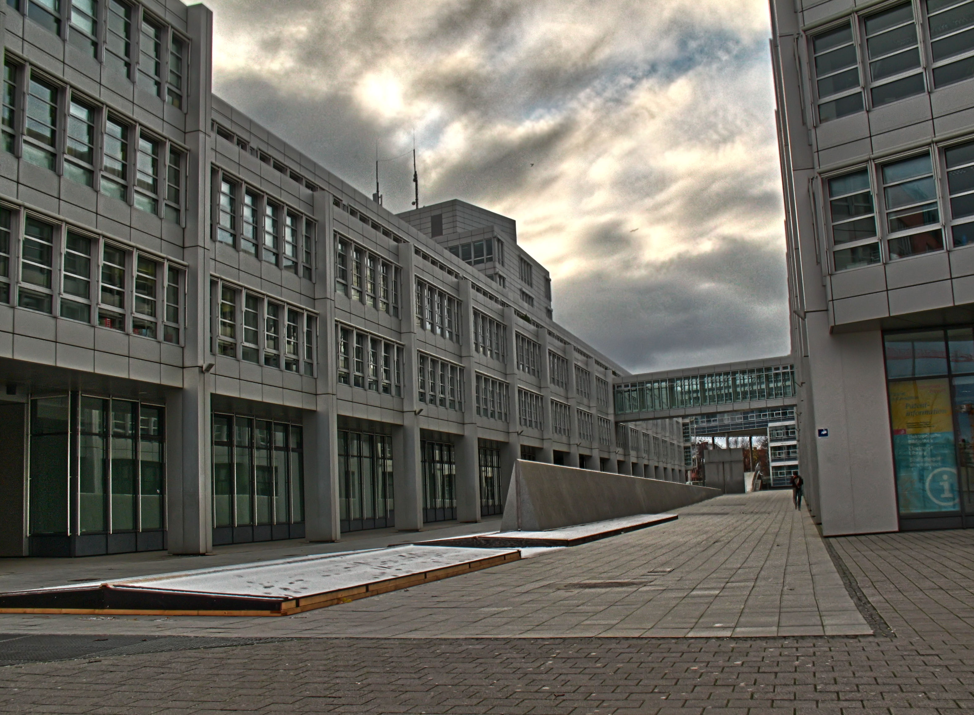 Germany, Bavaria, Munich, European Patent Office, Kurt-Haertel-Passage (view from the Hackerbrücke side of the walkway)